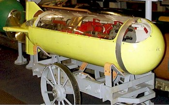 Mark 24 mine. An acoustic homing torpedo developed for the US Navy in 1942.